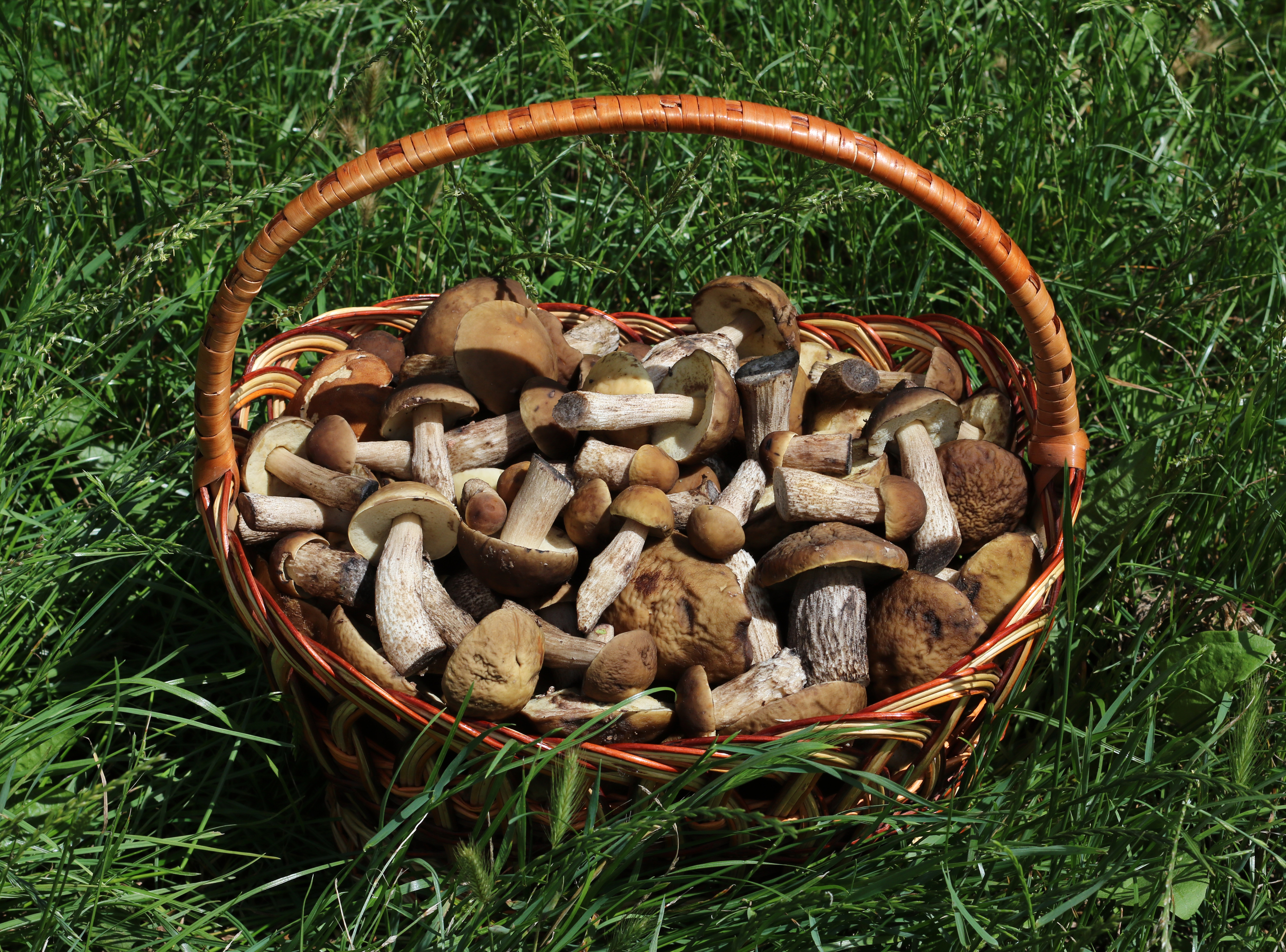 Leccinum pseudoscabrum , picked edible fungi in basket. Trophies of a mushroom hunt. Ukraine.